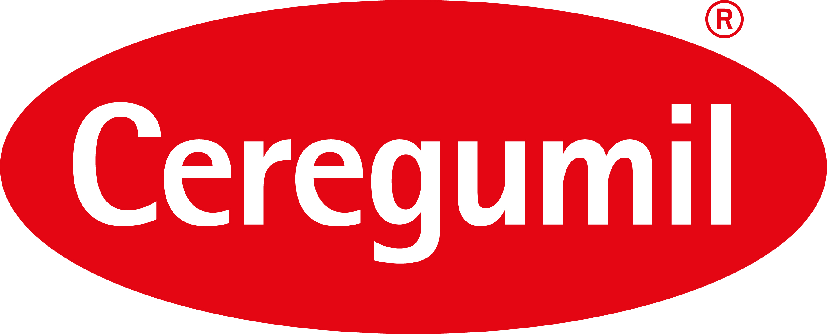 Ceregumil Brand Image